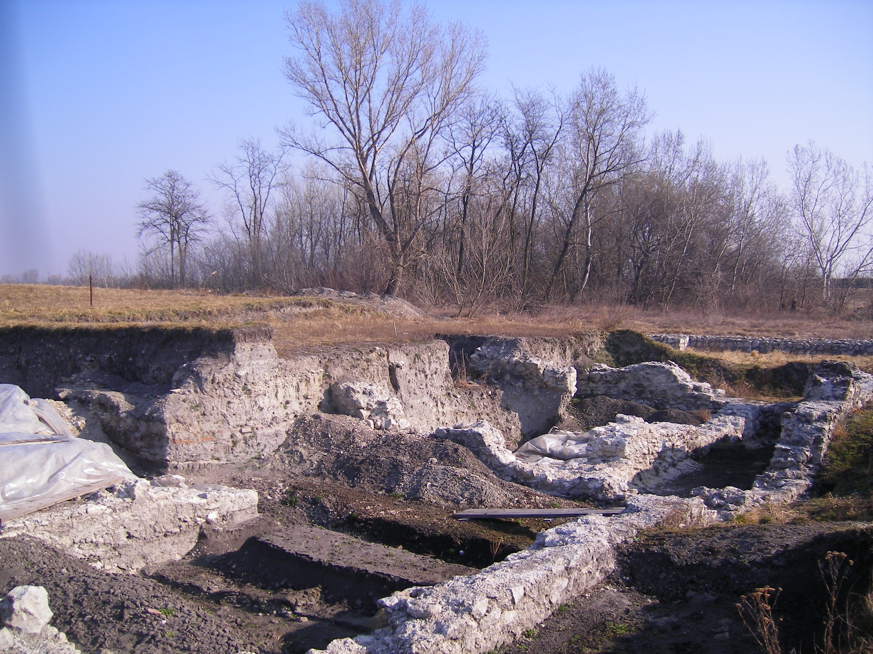 Izsa - Celemantia